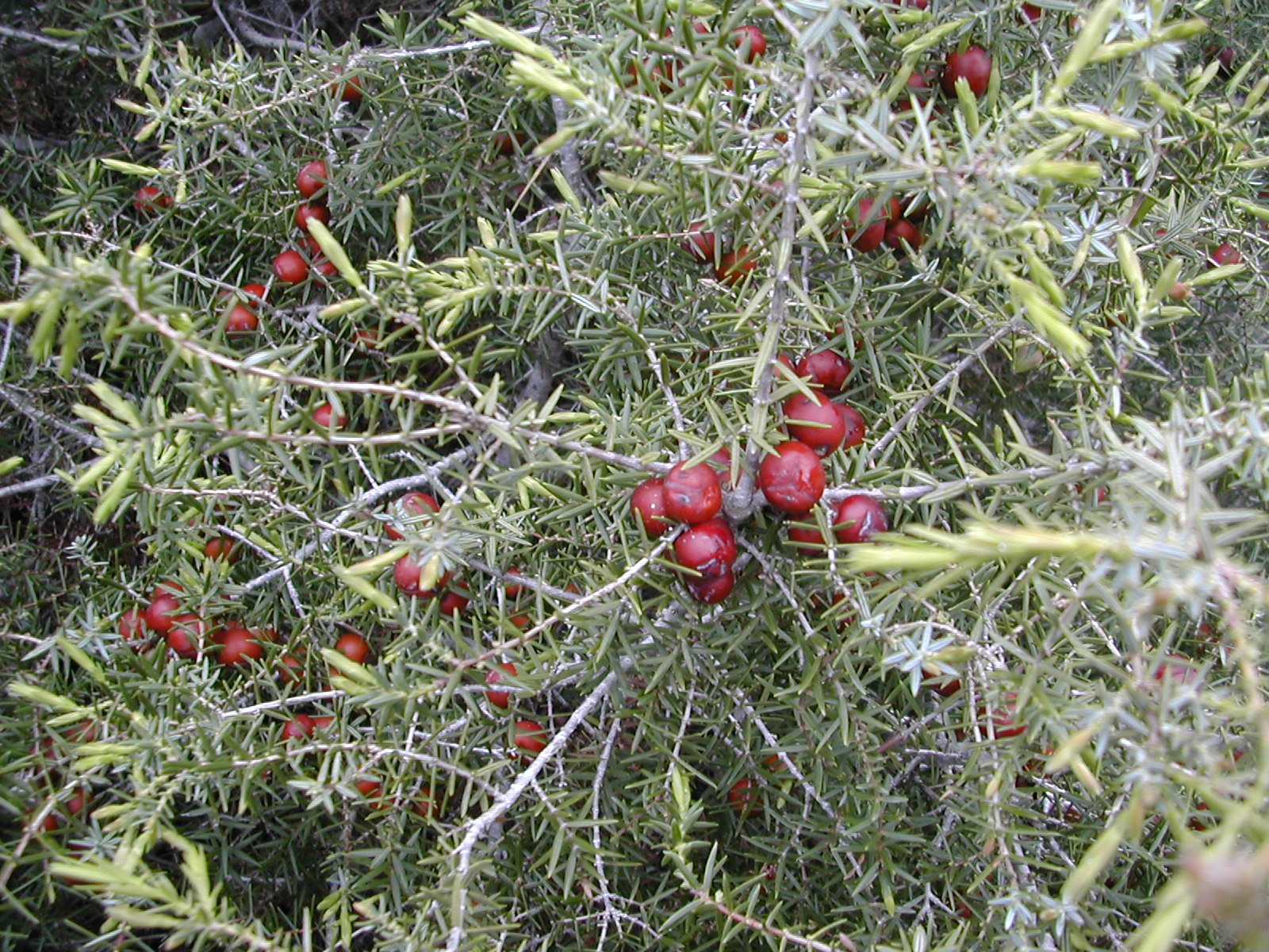 Juniperus oxycedrus Photo taken by me near l'Ametlla de Mar and l'Ampolla in Catalonia. Author: David Gaya Date: 6 March 2006